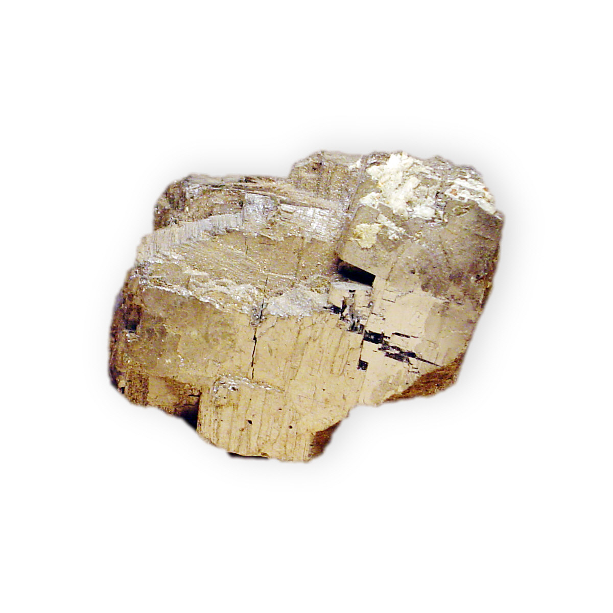 These mineral images are free to use how you wish.